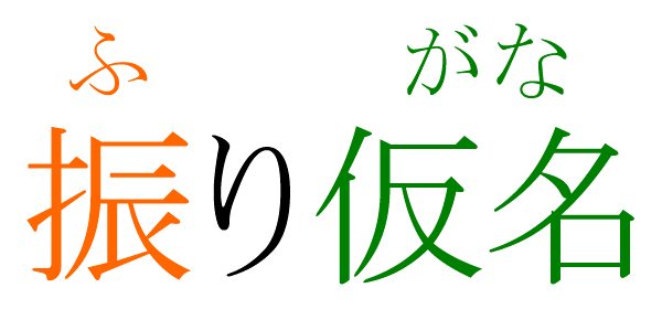 Furigana(振り仮名) text with furigana(ふりがな), as an example showing Kanji/Kana mixed writing. Unlike Image:Kanji.png, the text is written from left to right and the image has transparency. Made by User:Tokigun.